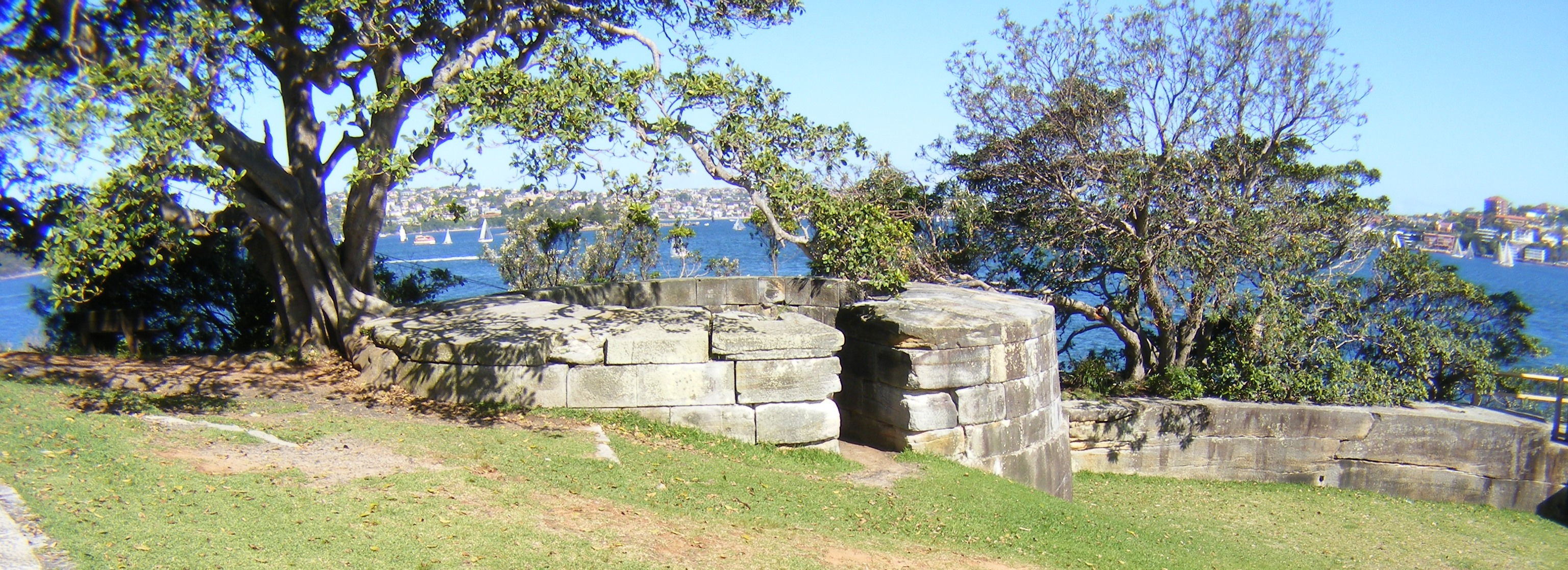 Gun emplacement Bradleys Heads